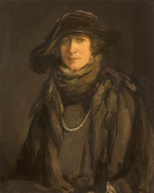 Lady Manton, nee Claire Nickols, wife of Joseph Watson, 1st Baron Manton (d.1922), portrait by John Lavery, 31" * 26", private collection. To match portrait by same artist of Lord Manton.